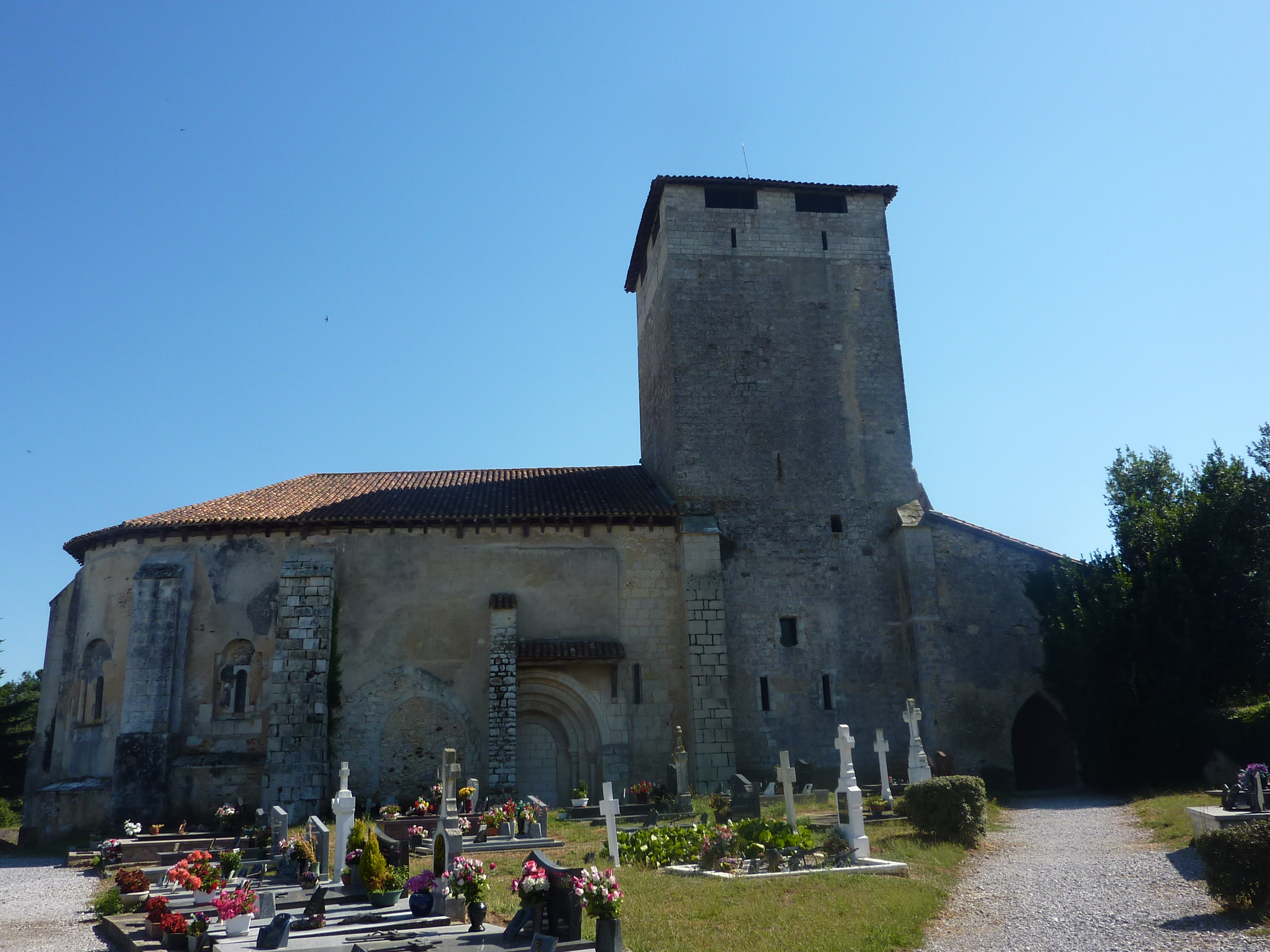 Church of Brocas Montaut in Landes département